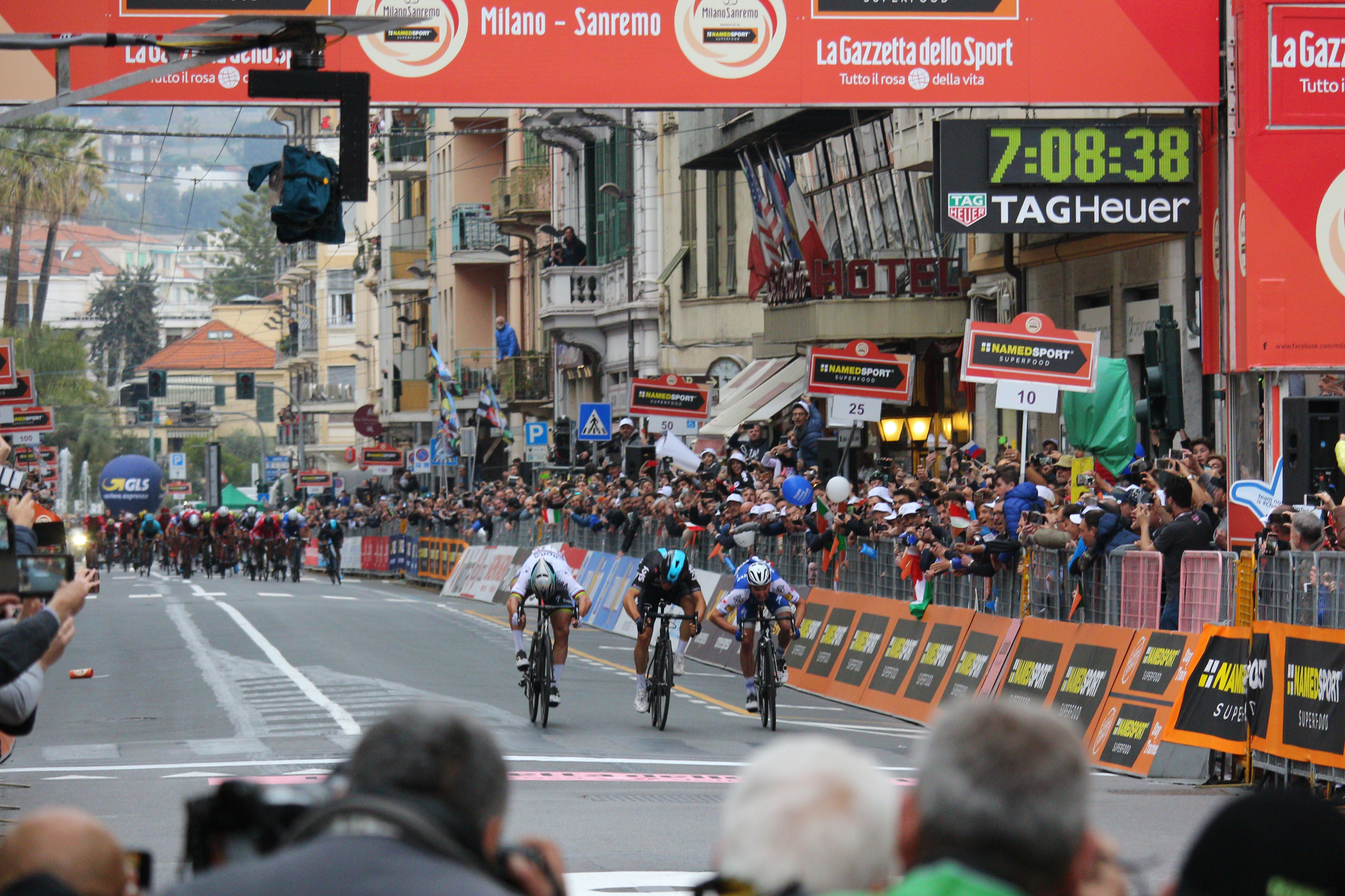 The finishing line of 2017 Milan-Sanremo. From left to right: Peter Sagan, Michał Kwiatkowski and Julian Alaphilippe